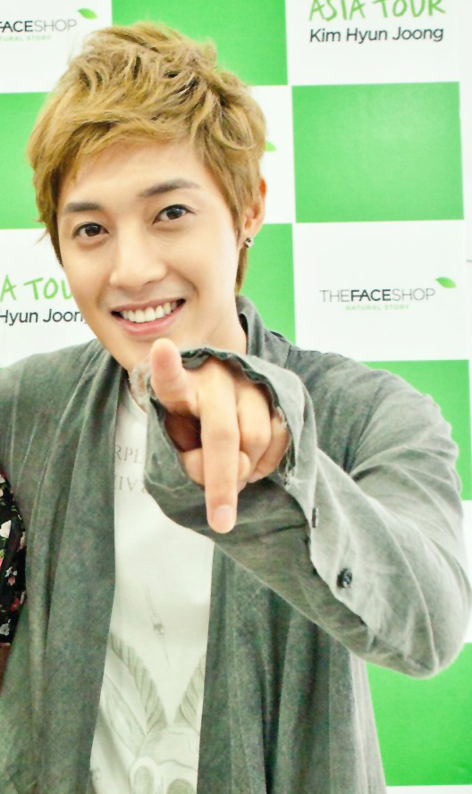 2011 The Face Shop activities in Taiwan